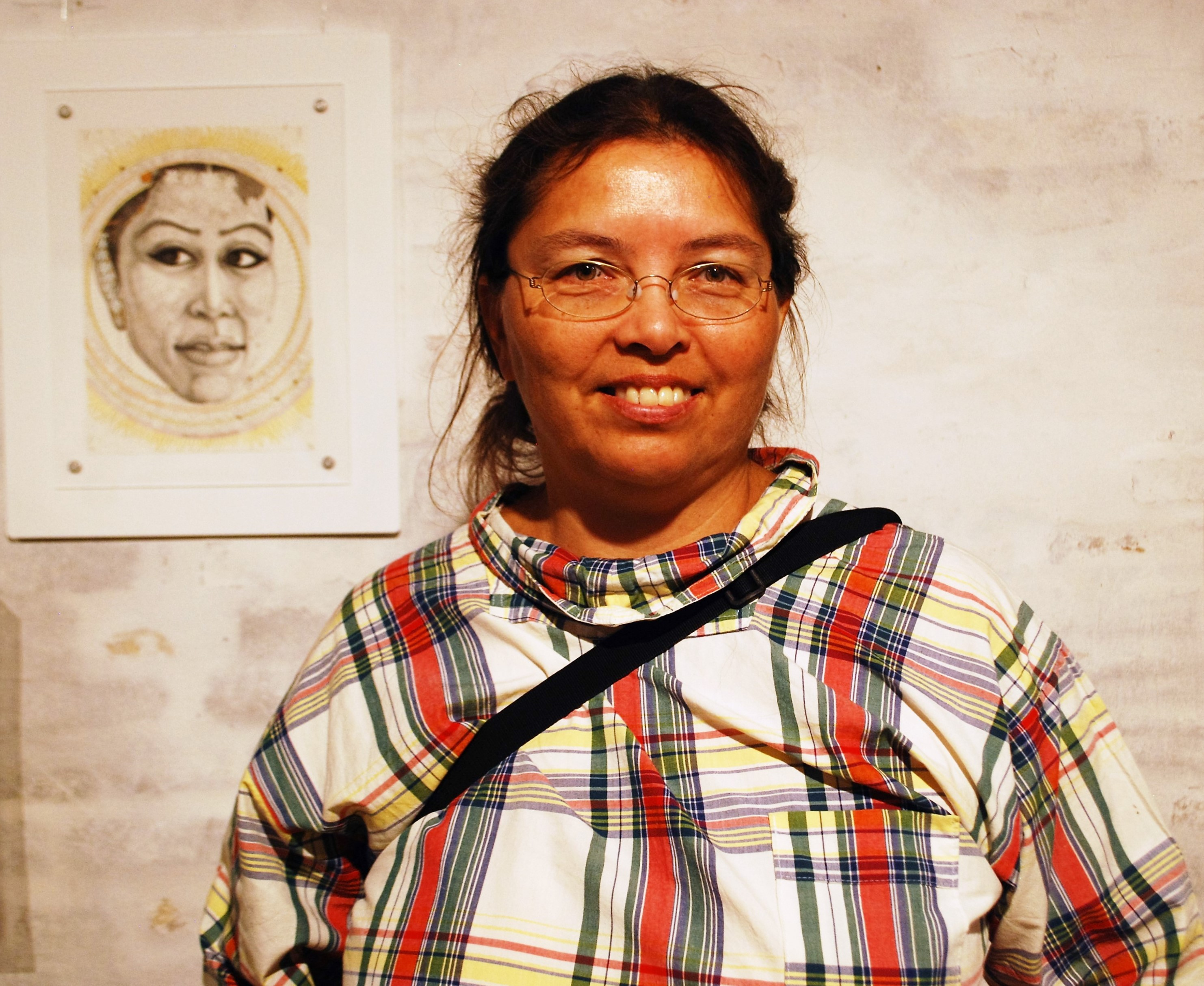 Artist, Naja Abelsen, Ærø. Denmark